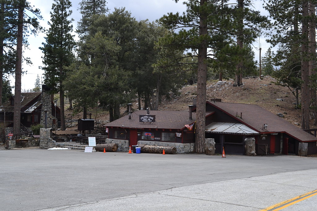 Crystal Lake (California) Snack Bar and Trading Post Please credit Richard Ellis and